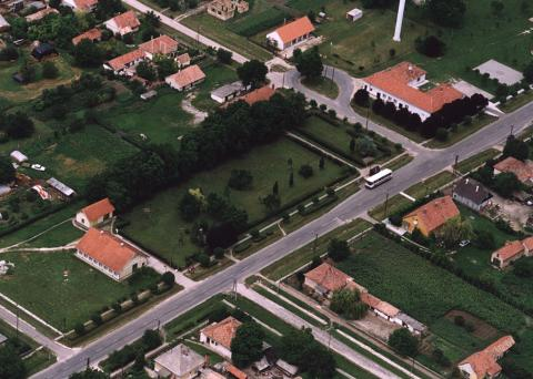 Mátyásdomb, Hungary, aerialphotography